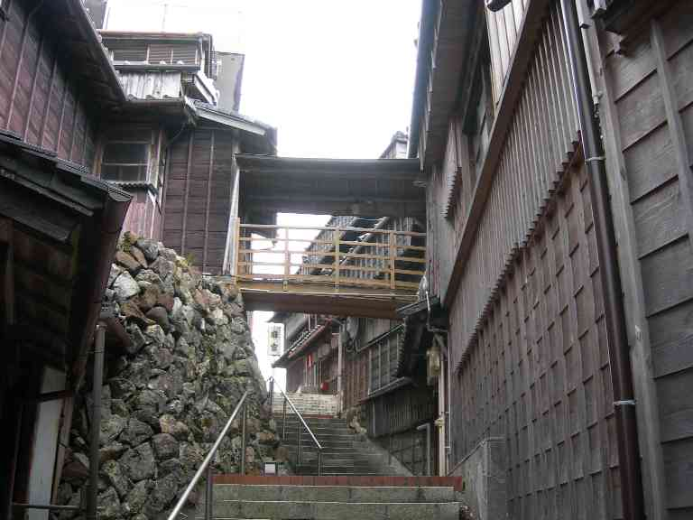 Asakichi is a Japanese style hotel in Nakano-cho, Ise city, Mie prefecture Japan.It was founded as a red-light district in the Edo period.